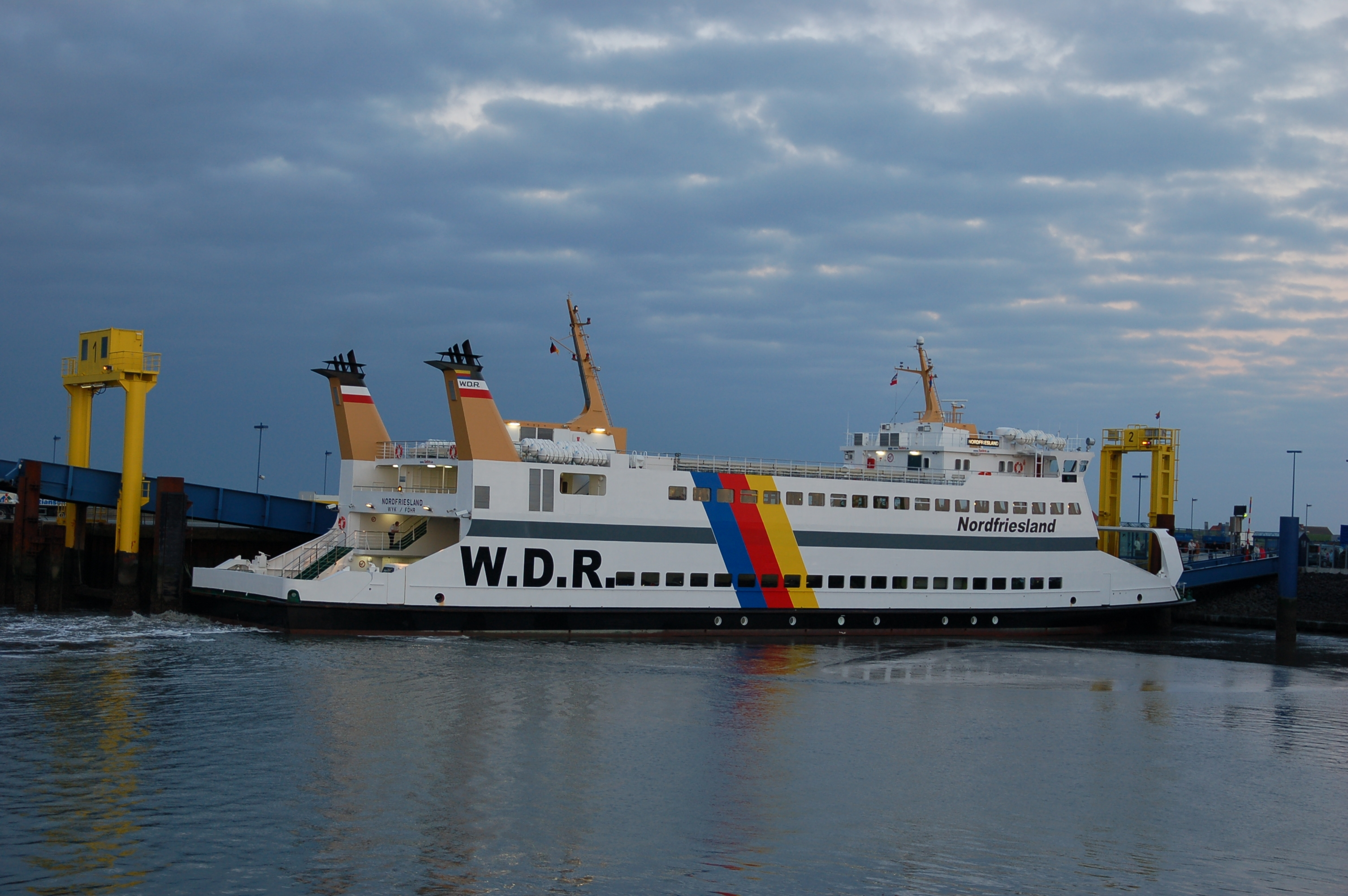 Ferry "Nordfriesland" in Dagebüll, Germany IMO Number: 9102758 MMSI Number: 211222960 Callsign: DJLK Length: 67 m Beam: 15 m